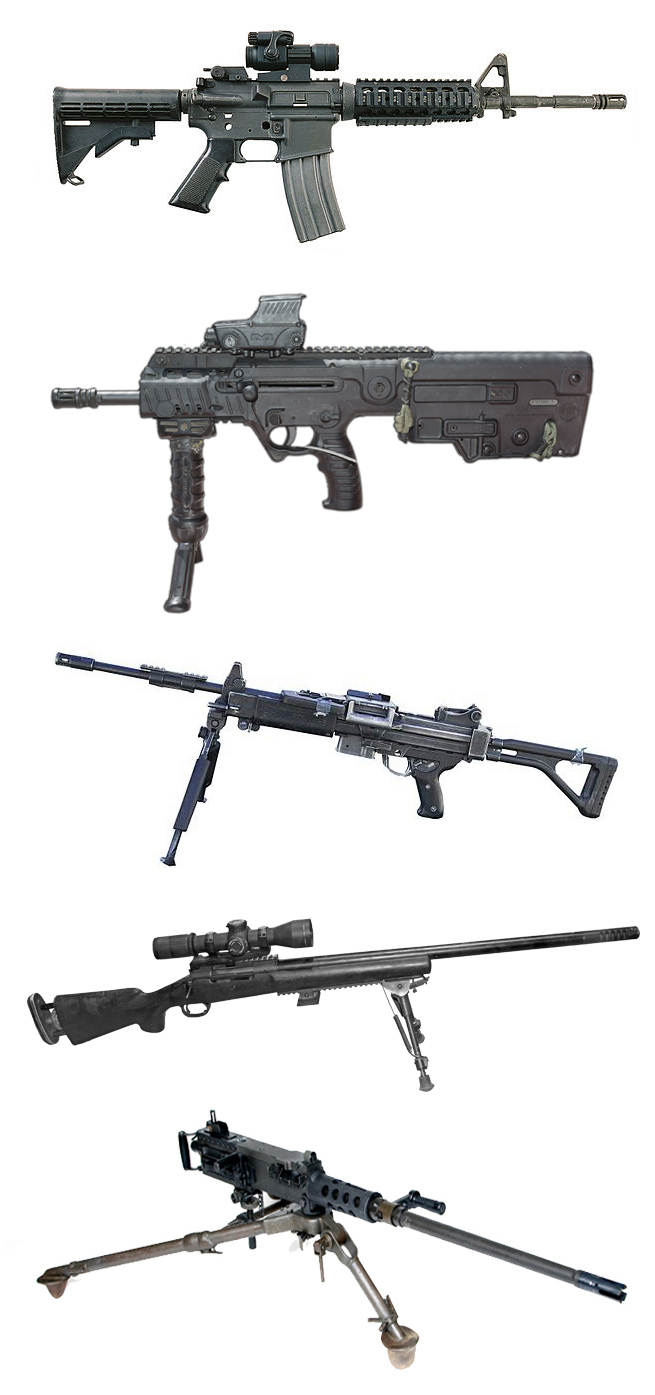 Some of the small arms of the Israel Defense Forces. From top to bottom: M4A1 assault rifle, IWI X95 Micro-Tavor bullpup assault rifle, IMI Negev light machine gun, M24 Sniper Weapon System and M2-HQCB Browning 0.50-cal machine gun.